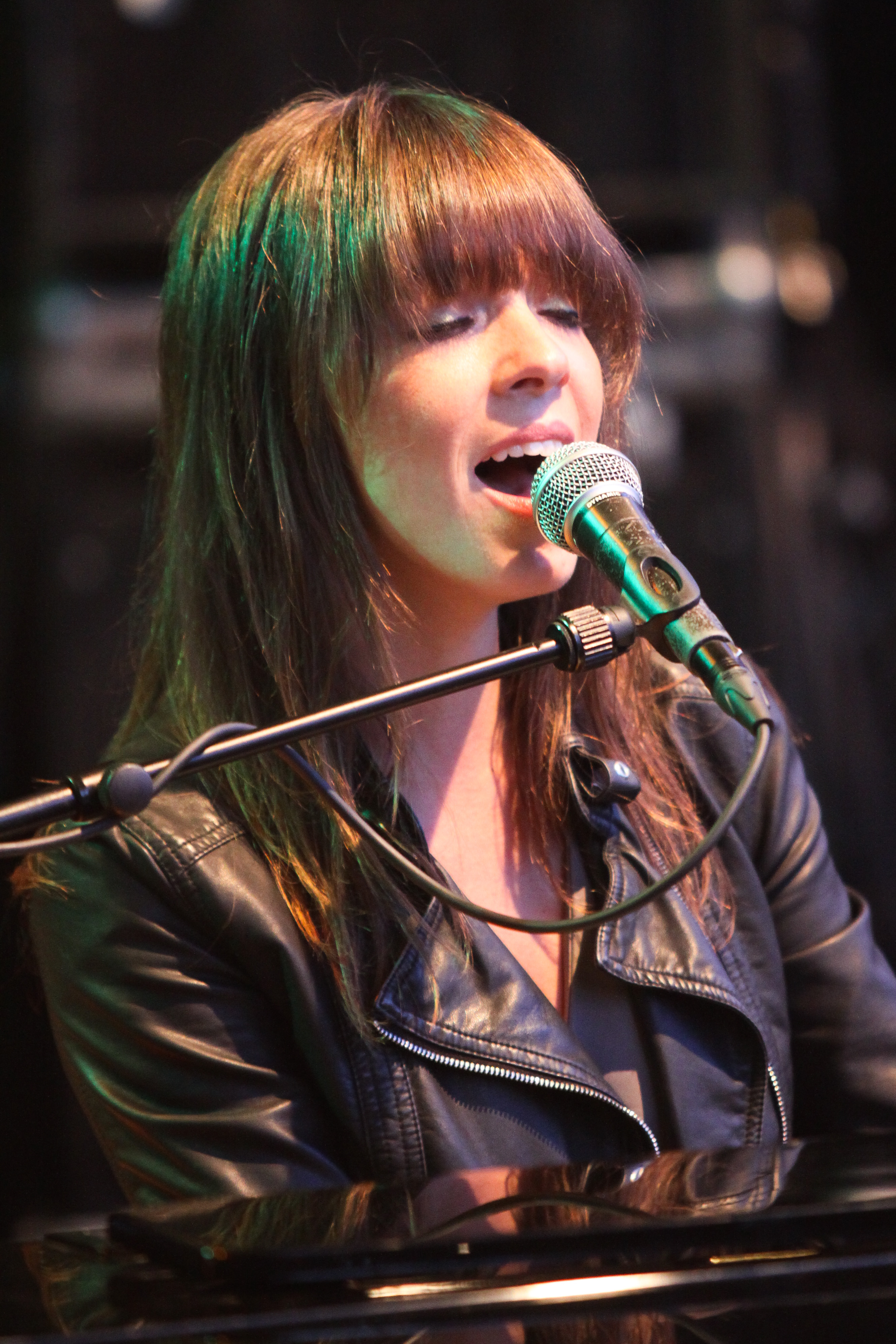 Laura Jansen live on stage during 'Summer Square Festival' in Hengelo, NL